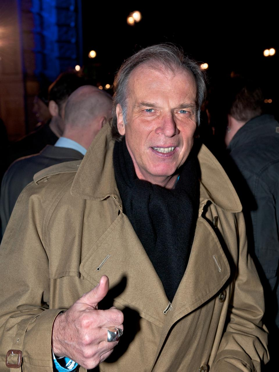 Wolfgang Fierek, German actor, Berlinale 2012, ARD Degeto Blue Hour Party